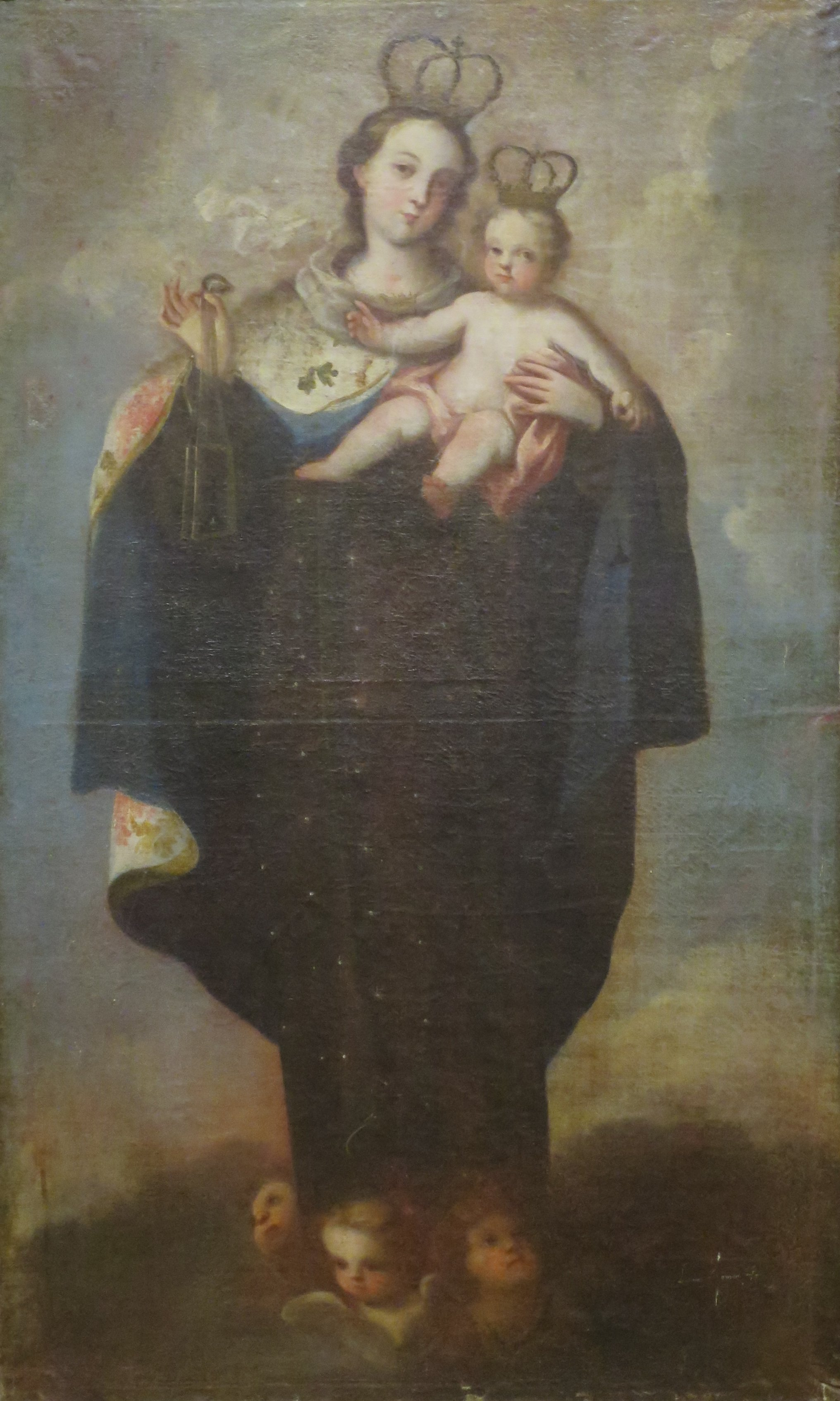 Our Lady of Carmel